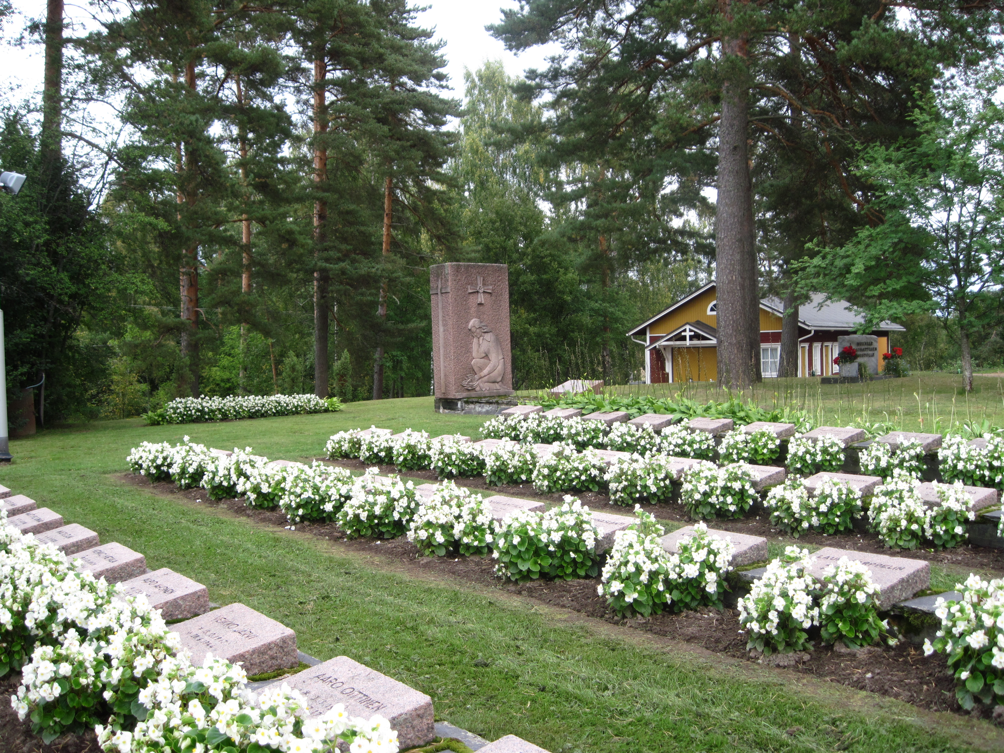 Military cemetary at church in Längelmäki, Finland